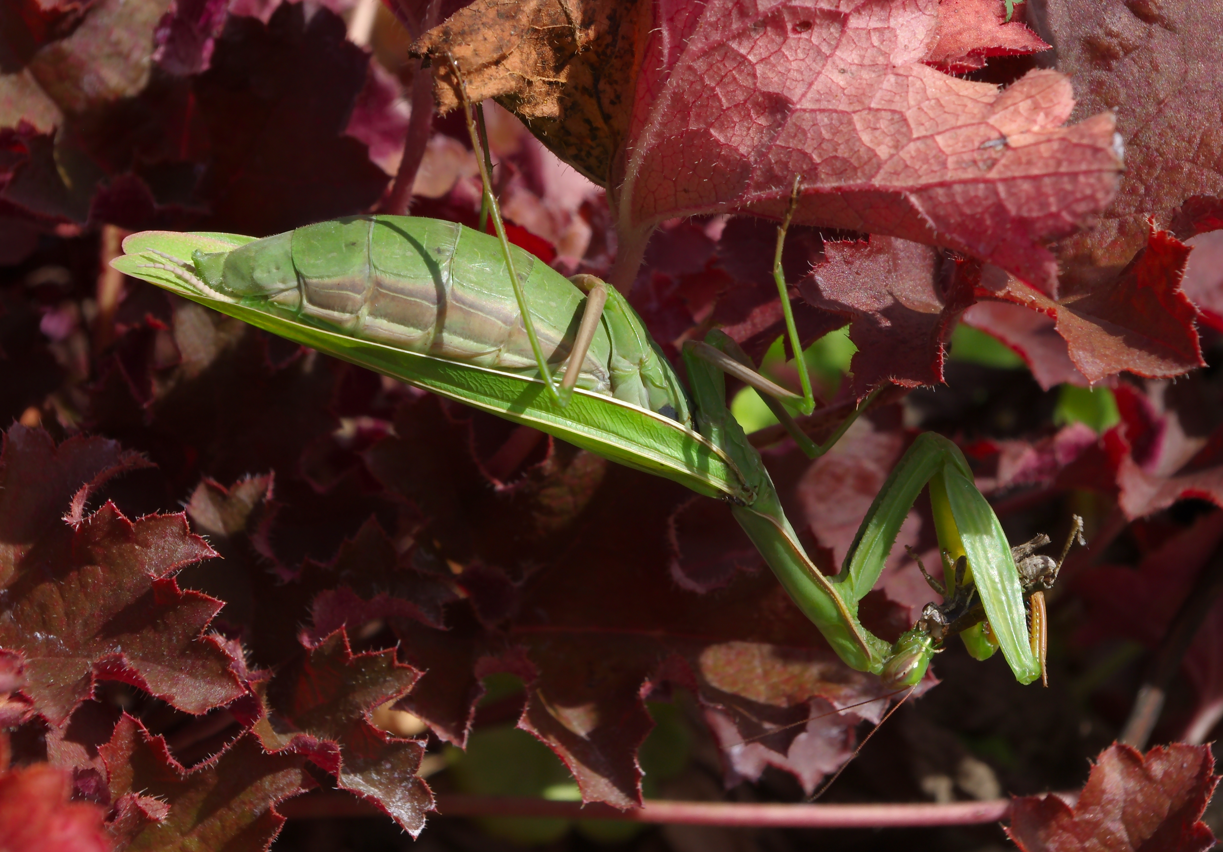 Praying Mantis (Mantis religiosa), adult female, beginning to eat a small grasshopper. Garden, France. Domain: Eukaryota • Regnum: Animalia • Phylum: Arthropoda • Subphylum: Hexapoda • Classis: Insecta • Subclassis: Pterygota • Infraclassis: Neoptera • Superordo: Polyneoptera • Ordo: Mantodea • Familia: Mantidae • Genus: Mantis